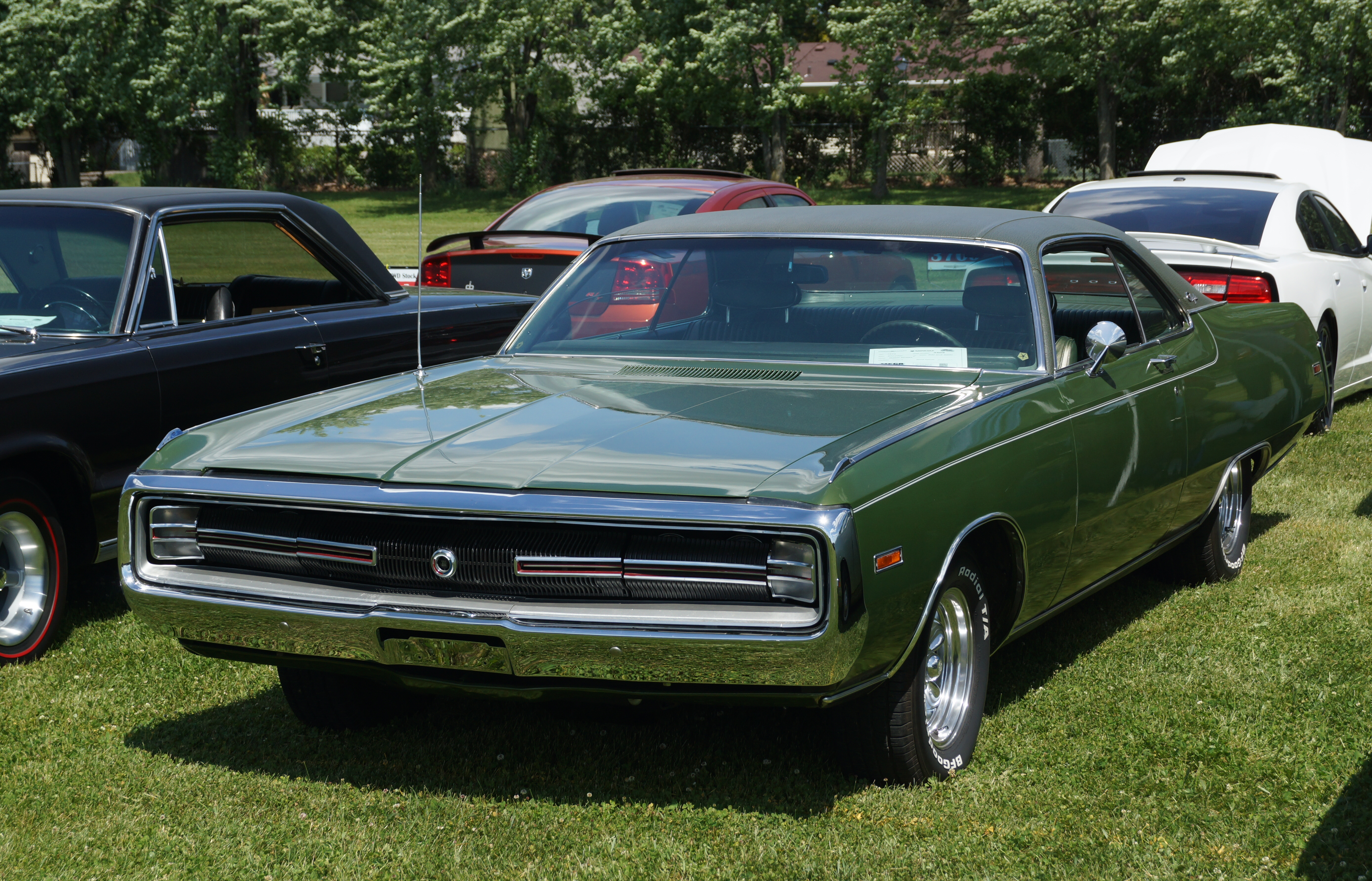 Midwest Mopars in the Park National Car Show & Swap Meet Dakota County Fairgrounds Farmington, Minntesota June 2-4, 2017 ******** Click here for more car pictures at my Flickr site. Or here for my Car Crazy Tumblr site. Or on Twitter @DVS1mn.